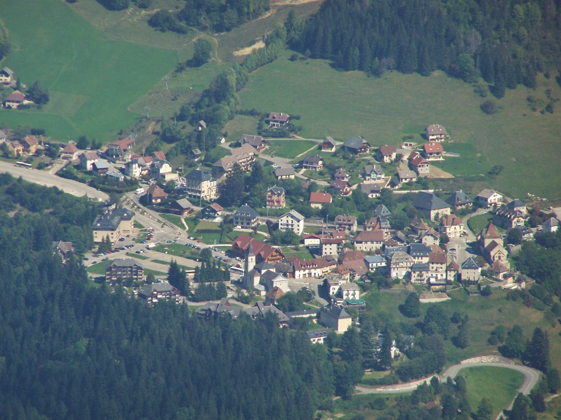 Panoramic view of Saint-Pierre-de-Chartreuse, from the Grand Charmant Som mount, in Isère, France.